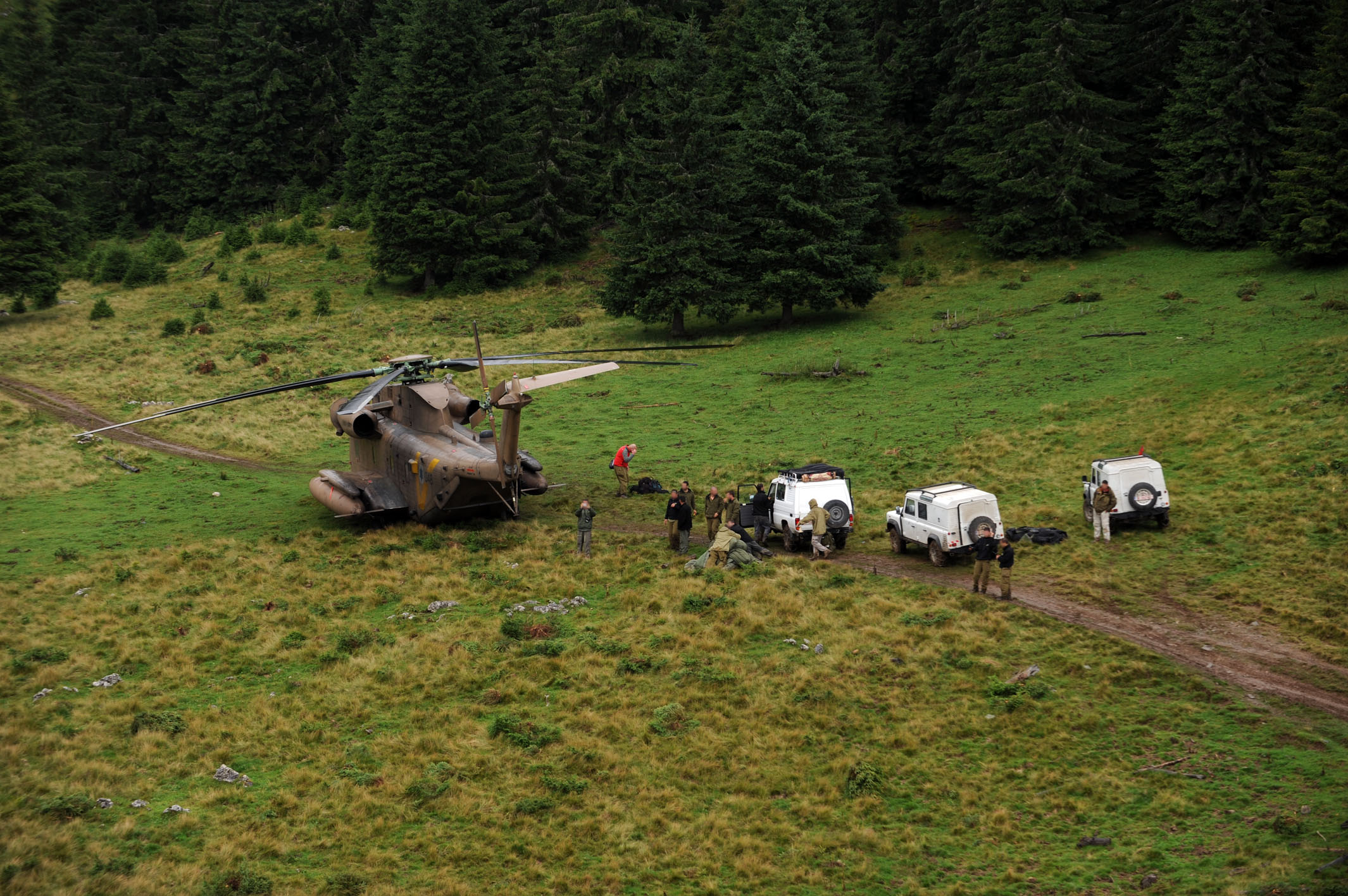 July 28, 2010. The IDF delegation continued today (Wednesday) to search for the bodies of the victims from the helicopter crash in Romania. For more information: dover.idf.il/IDF/English/News/today/10/07/2806.htm The Israel Defense Forces Facebook • blog • Twitter